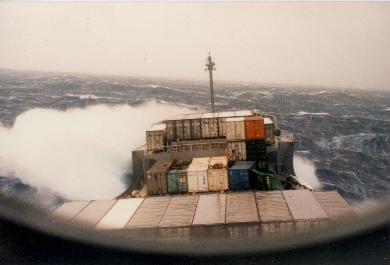 Container ship "Seatrain Bennington" in the hurricane. - The ship heeled to port, on the starboard side to begin the damaged container to slide into the sea.